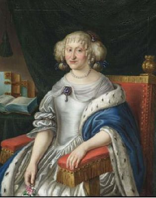 Princess Elisabeth Sophie of Saxe-Altenburg (1619-1680)